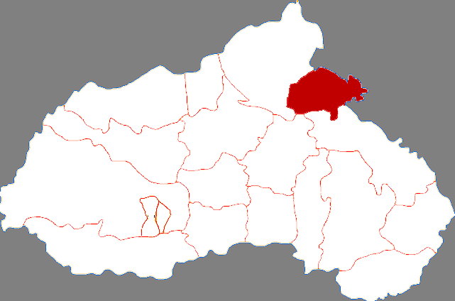 Location of Xinhe county in Xingtai City, China